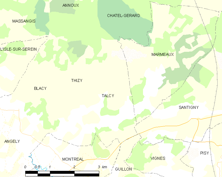 Map of French municipality Talcy